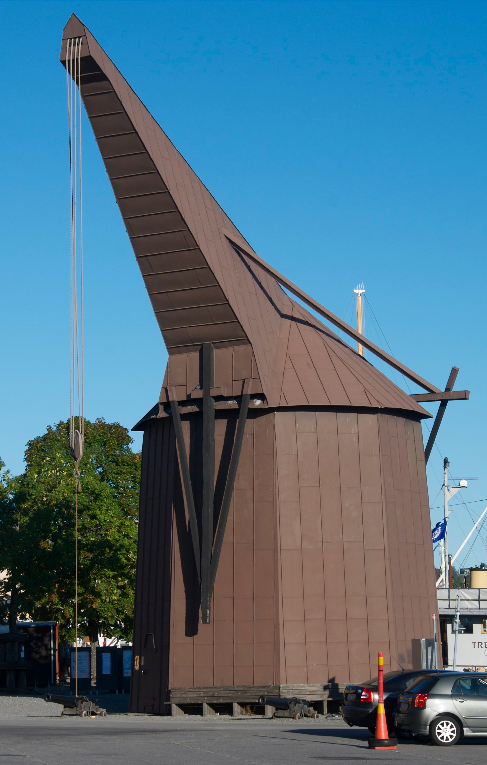 Styckekranen, Riddarholmen.